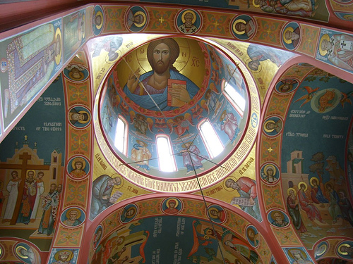 St. Nicholas Cathedral (Washington, D.C.); interior